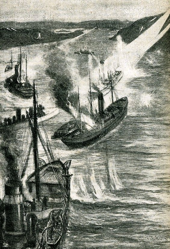 Attempt of blocking Port Arthur on march 27 1904 during the russo-japanese war.